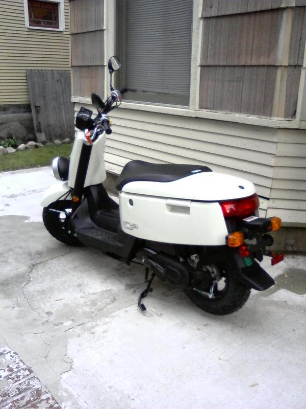 2008 Yamaha C3 Motor Scooter